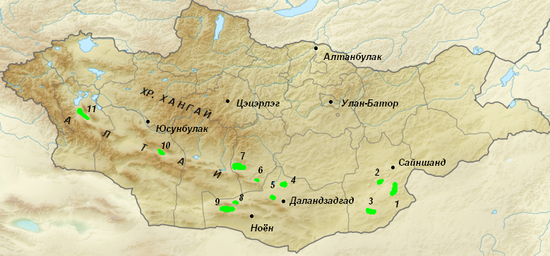 Mongolia. Areas of excavation of the Soviet-Mongolian Paleontological Expedition (1946-1949)